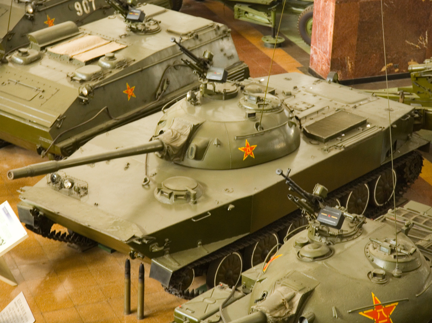 A Chinese Type 63 light tank seen from above at the Beijing Military Museum.